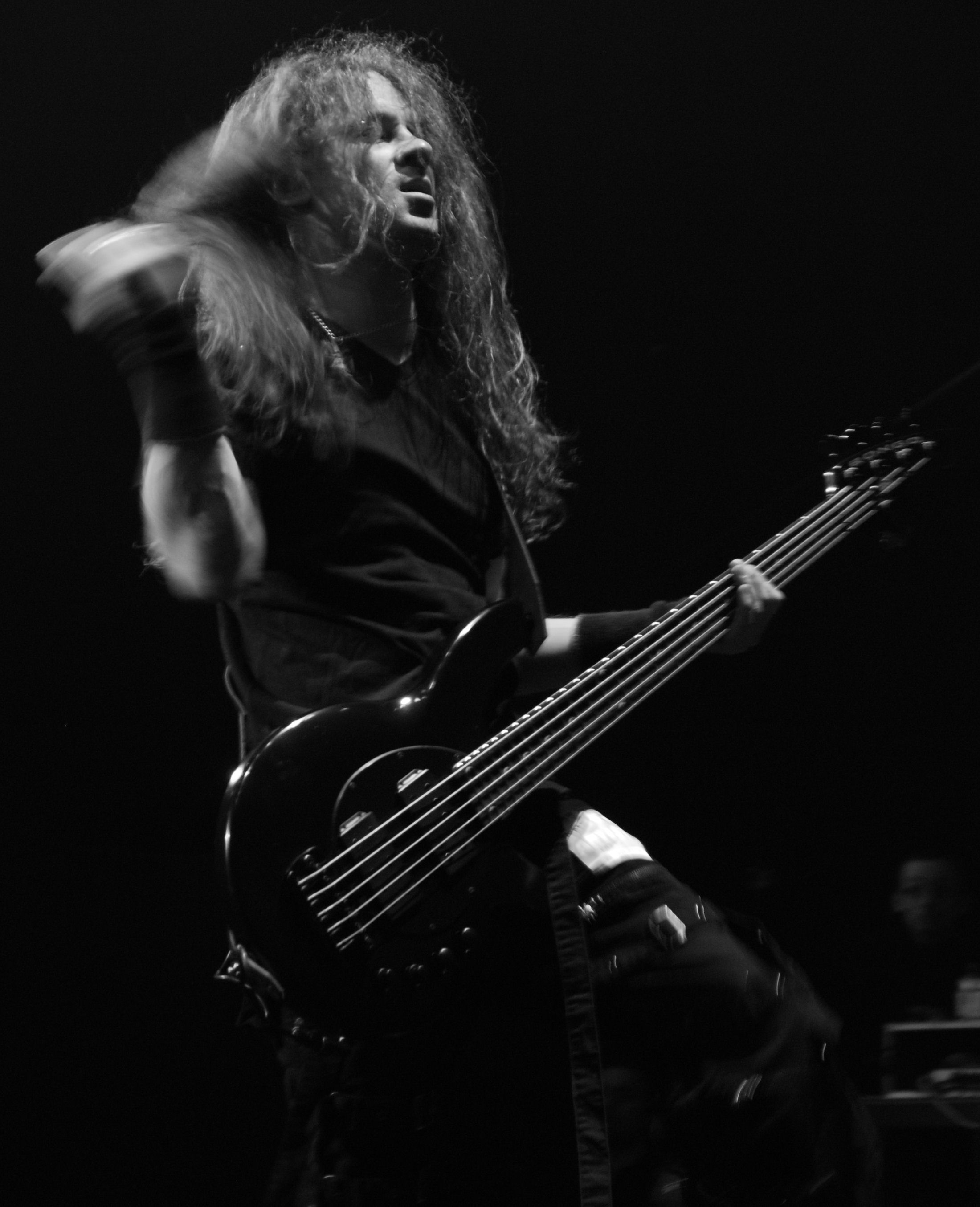 Marcin "Novy" Nowak from Vader during Metalmania 2008 festival